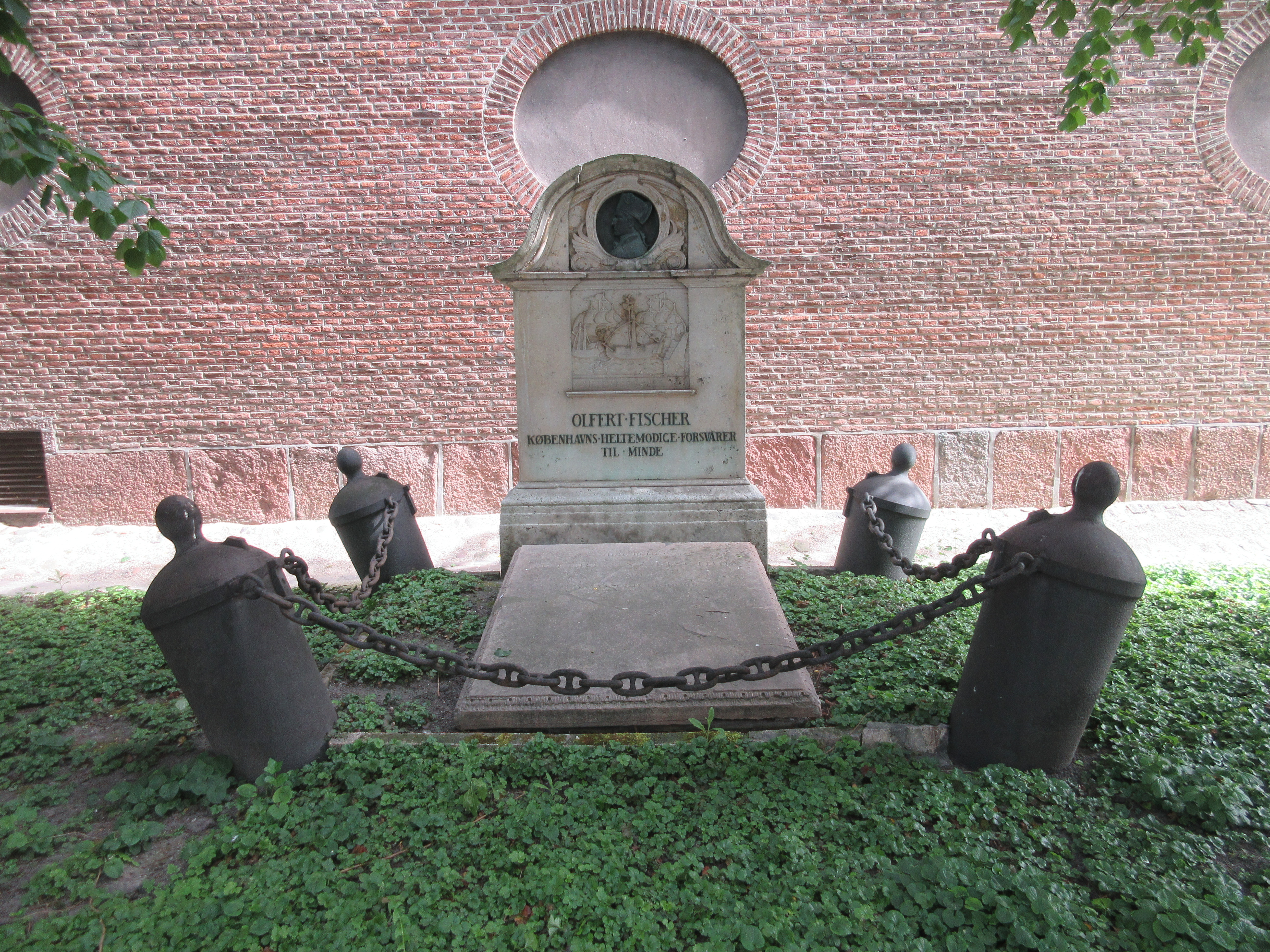 Grave of Olfert Fischer (1747 – 1829) at the Reformed Church as seen from the street Åbenrå in Copenhagen, Denmark